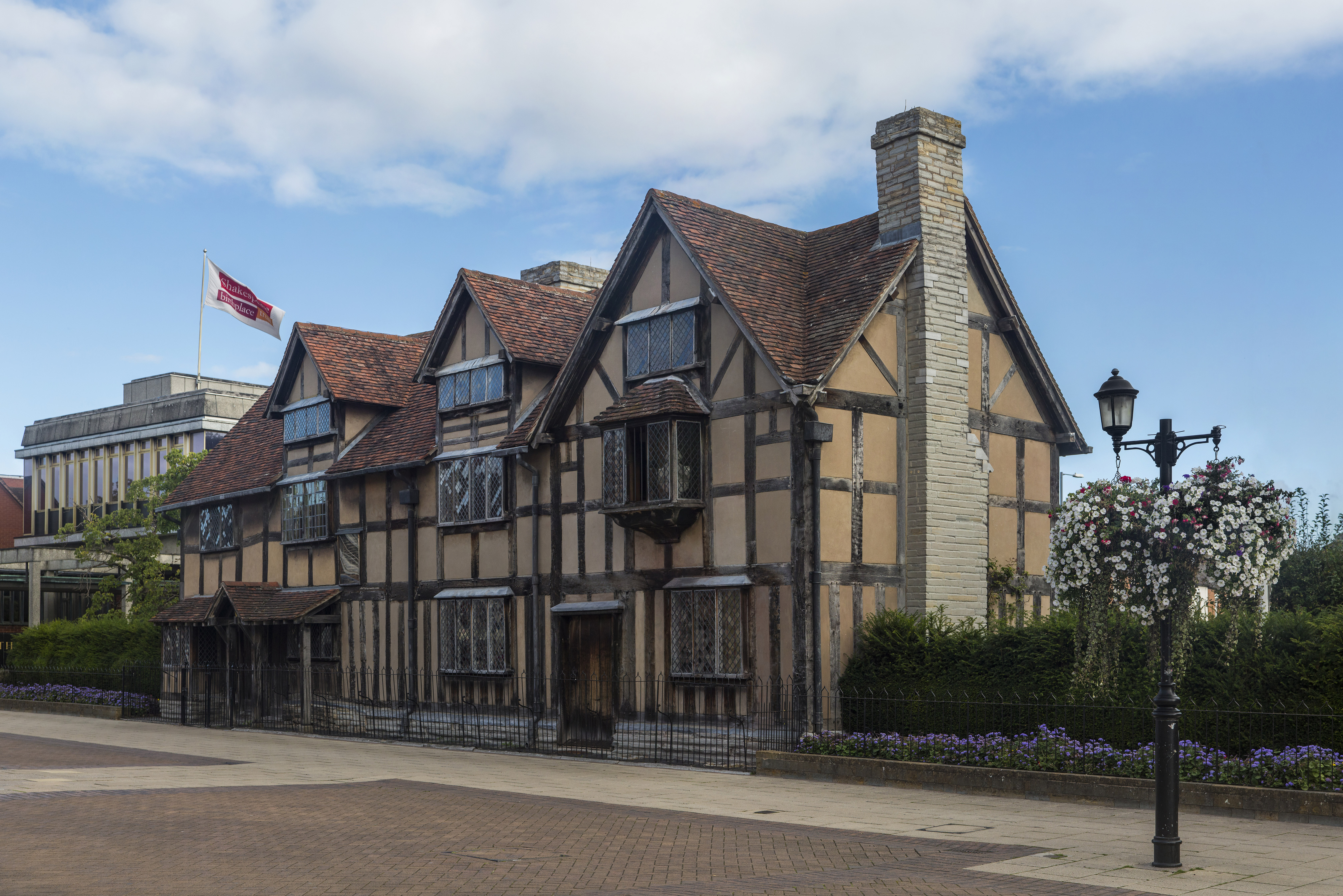 Shakespeare's Birthplace in Stratford-upon-Avon, Warwickshire, as viewed from the pedestrian Henley Street.